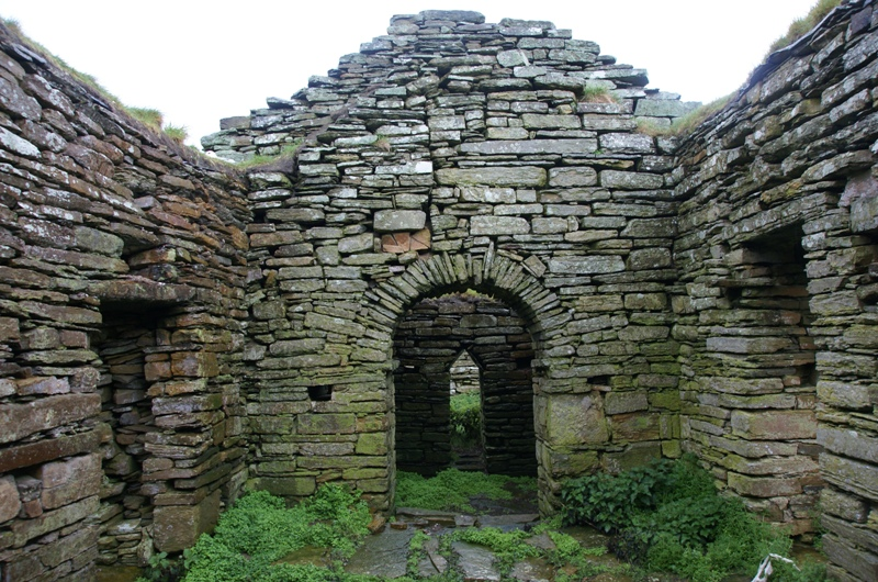 Eynhallow Church, Eynhallow, Orkney, Scotland - in the nave looking west